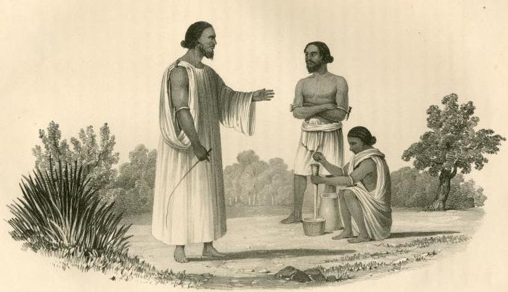 The Hassanyah tribe.